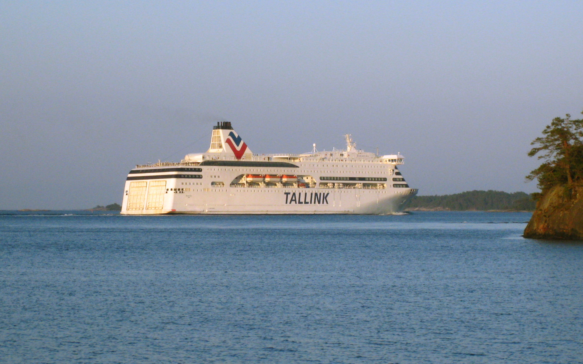 M/S Romantika by Vindalsö, Stockholm archipelago, Sweden.